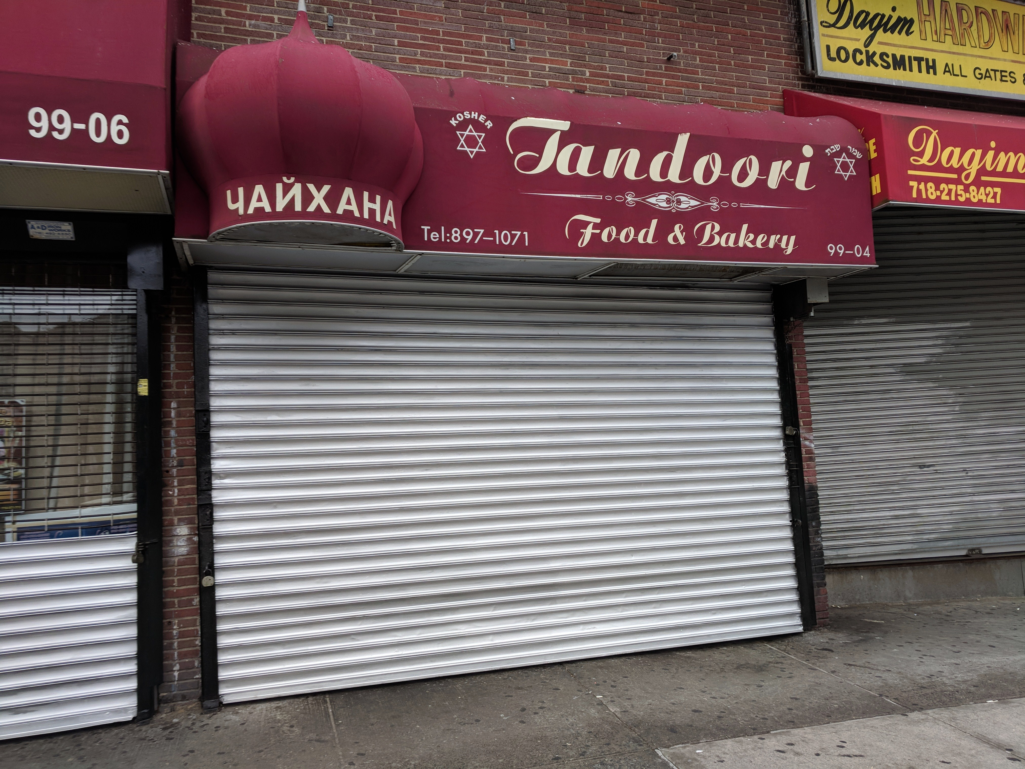 Tandoori Food and Bakery, a kosher Bukharan Jewish Uzbek restaurant in Rego Park, Queens, New York City.